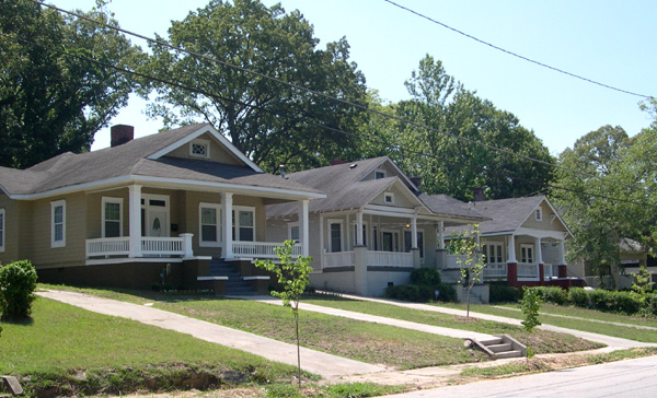 Steffi Langer-Berry